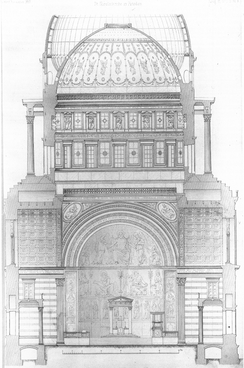 cross-section, St. Nikolaikirche Potsdam, Germany